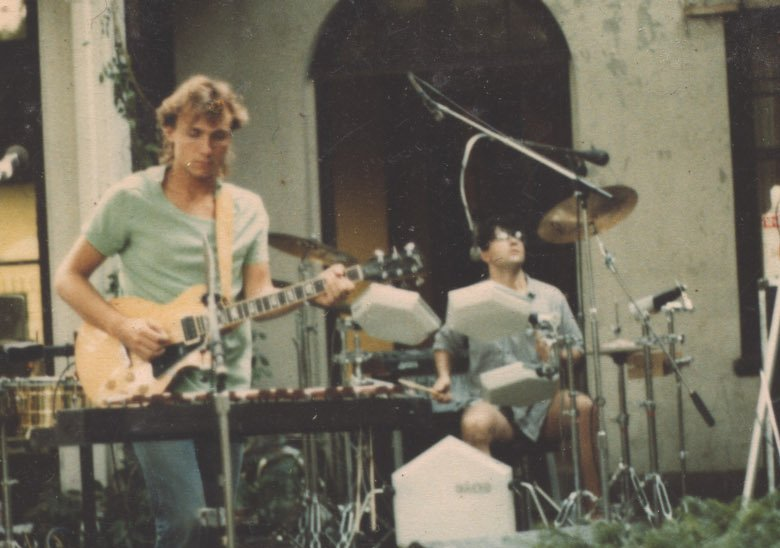 Exotic Birds' Andy Kubiszewski and Tom Freer. Photo taken by User:Cuzoko September 8, 1984 in Cleveland, Ohio, Theta Chi Fraternity, Case Western Reserve University.